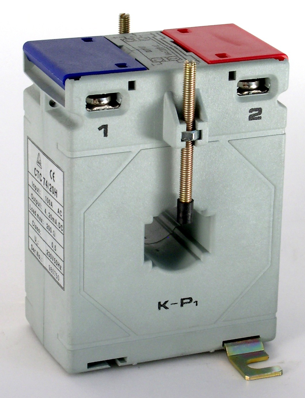 Current transformer+transducer